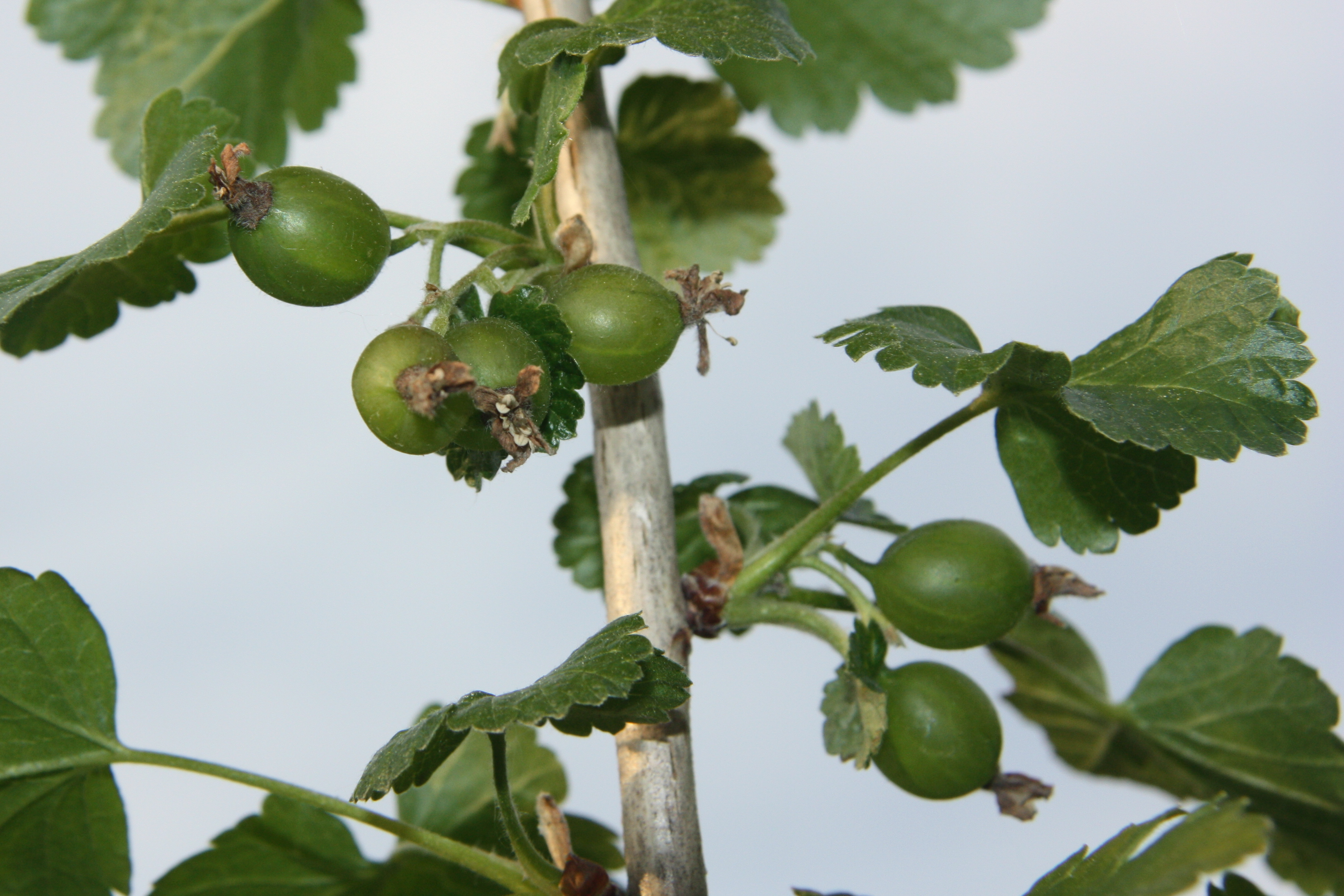 Immature fruits of jostaberry.